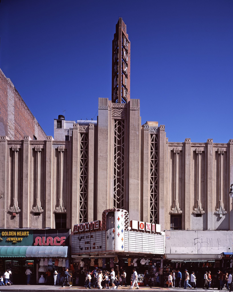 John M. Cooper's 1932 Streamlline Moderne Roxie was the last great movie palace downtown Los Angeles. Unlike others on L.A.'s Broadway, it was designed for motion pictures, rather than vaudeville shows, from the beginning. A store took over the lobby. 04/07/05